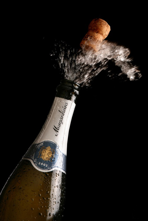 Murganheira Bottle of sparkling wine